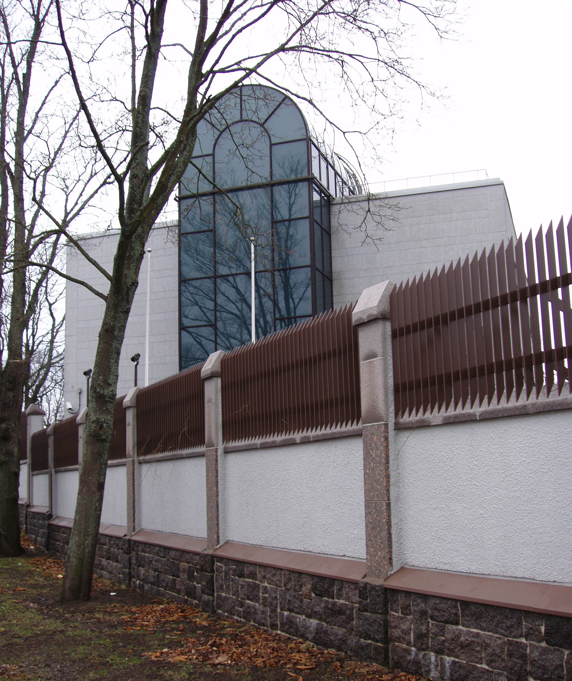 British Embassy, Helsinki